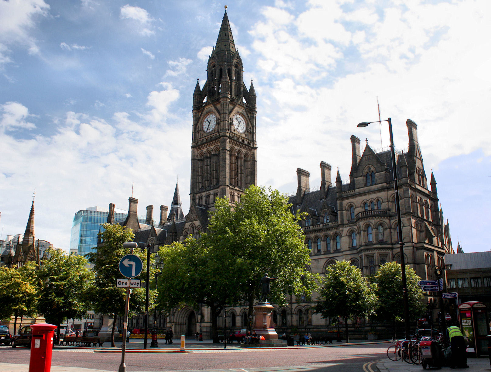 Completed by Alfred Waterhouse in 1877.